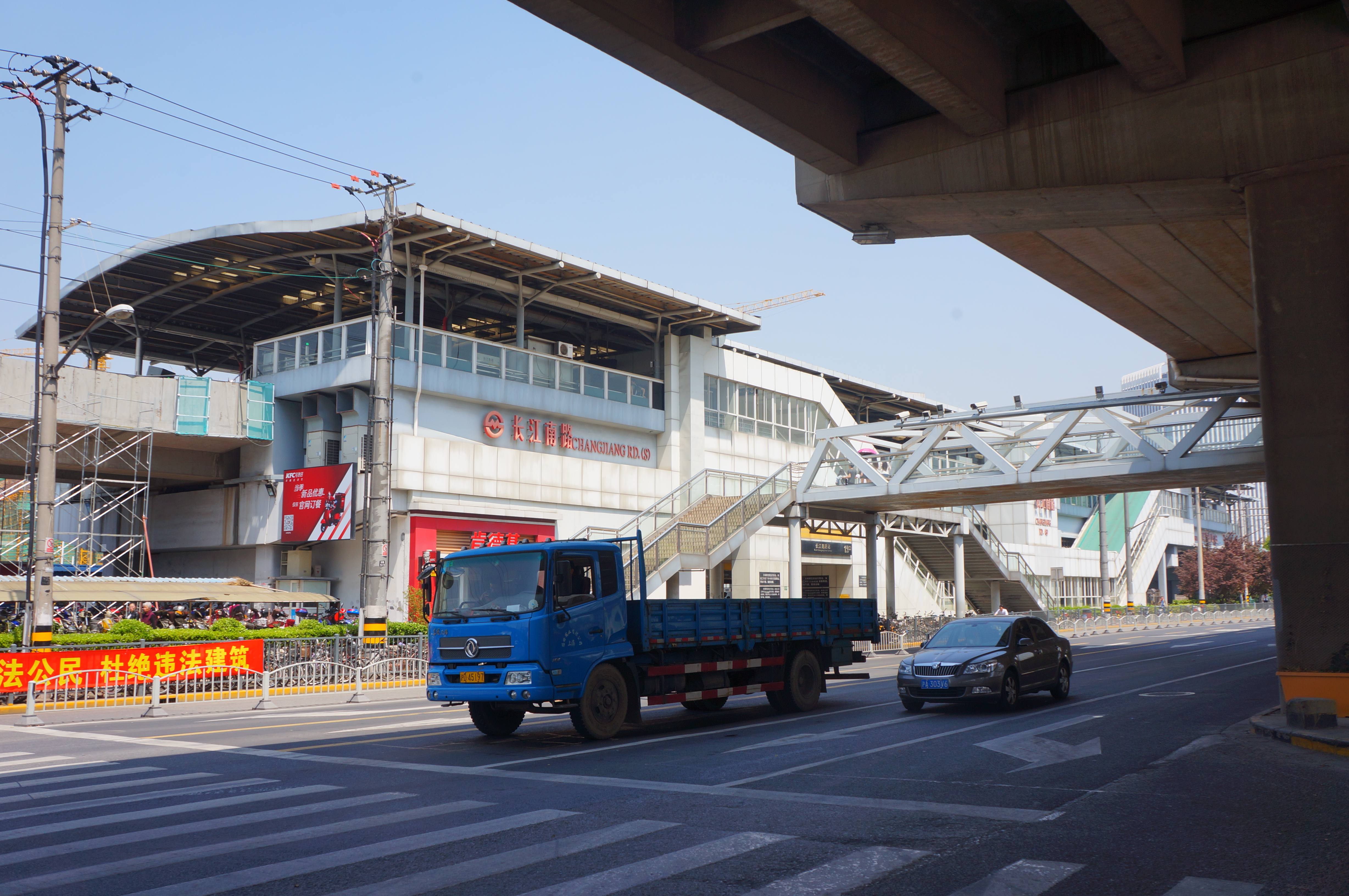 201704 South Changjiang Road Station